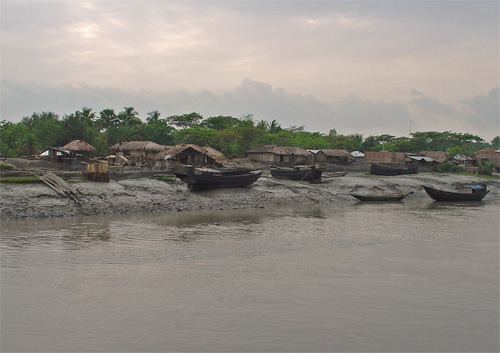 Village in the sunderbans in Satkhira, Bangladesh